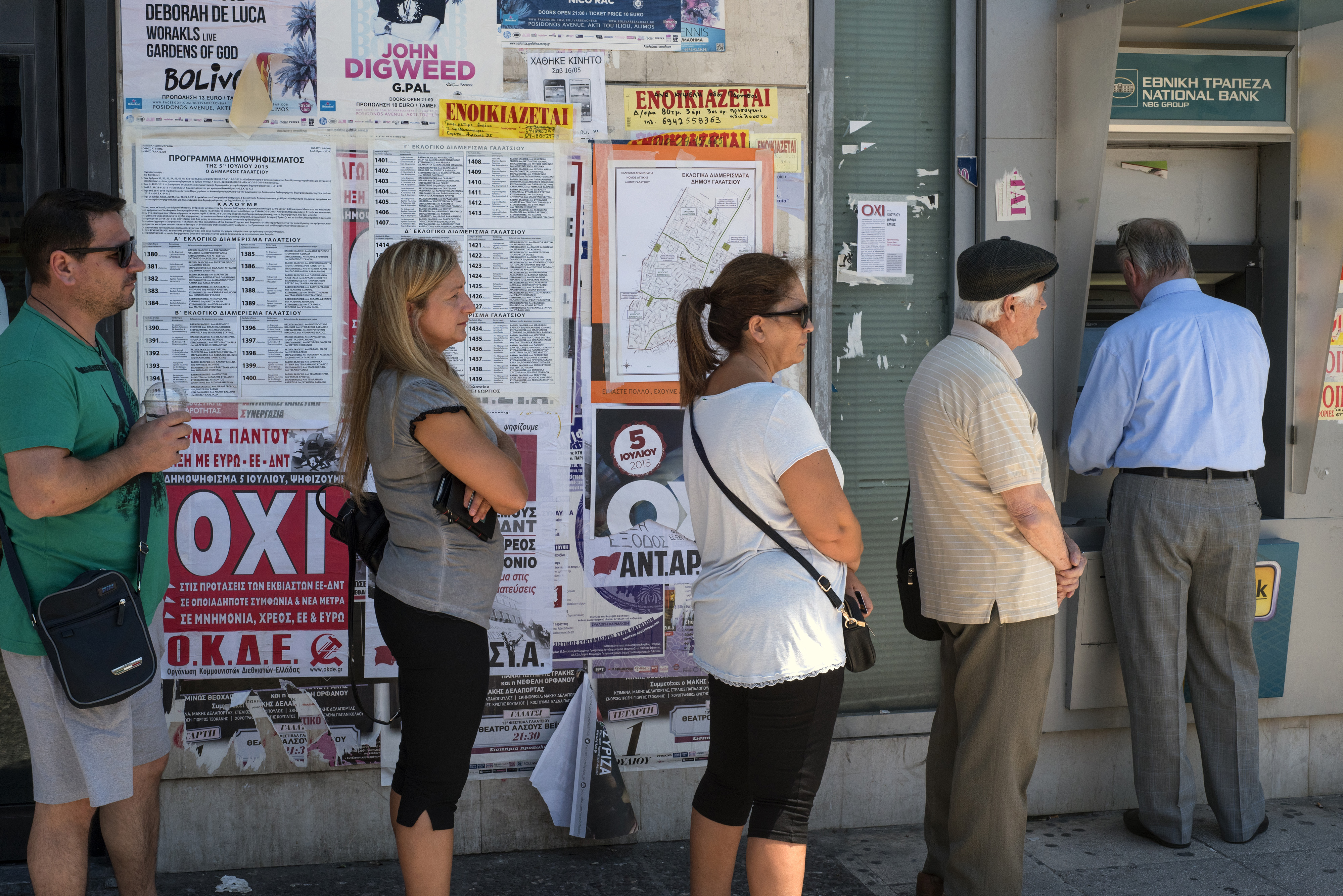 Day of Greek Referendum (5 July 2015): Queue at National Bank of Greece in Galatsi, Athens. In the background there are posters of voting "NO" in the referendum.